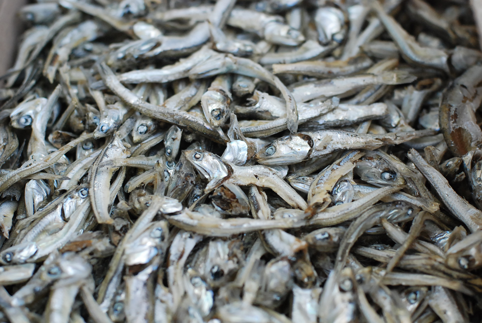 Dried myeolchi (anchovies)